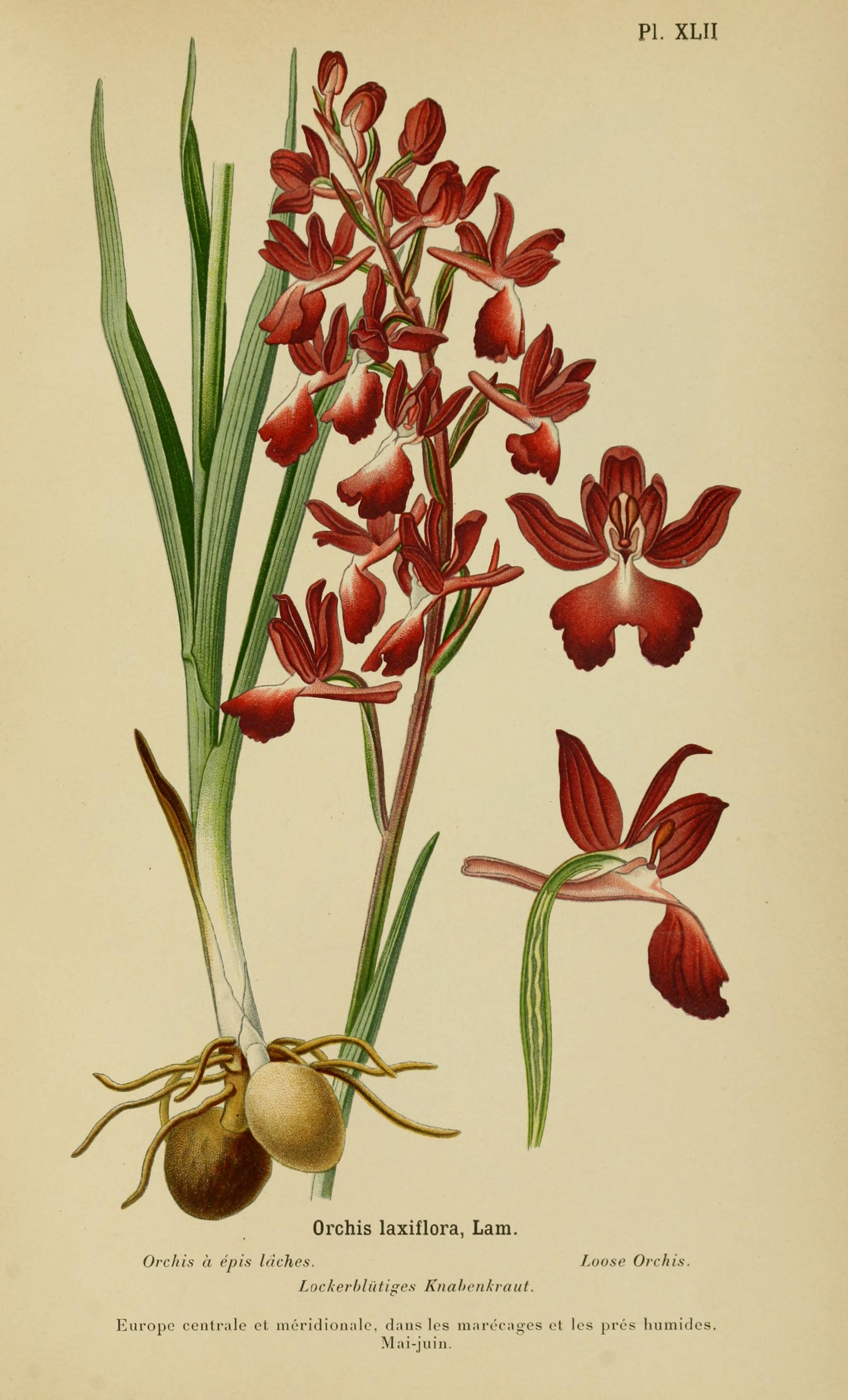 Title: Album des orchidées de l'Europe centrale et septentrionale Year: 1899 (1890s) Authors: Correvon, Henry, 1854-1939 Subjects: Publisher: Genève, Librairie Georg Text Appearing Before Image: PL XLH Text Appearing After Image: Orchis laxiflora, Lam. Orcliis à épis lâches. Loc/,erf)liitiffes Knalicnkraut. Louse Orchis. Europe cenlrale et inéridlon;ile. dans les marécages et les prés luimides. Mai-juin.